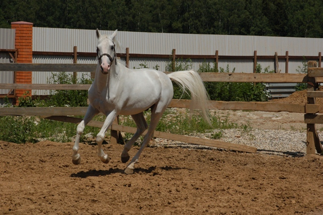 Basilick, Tersk stallion